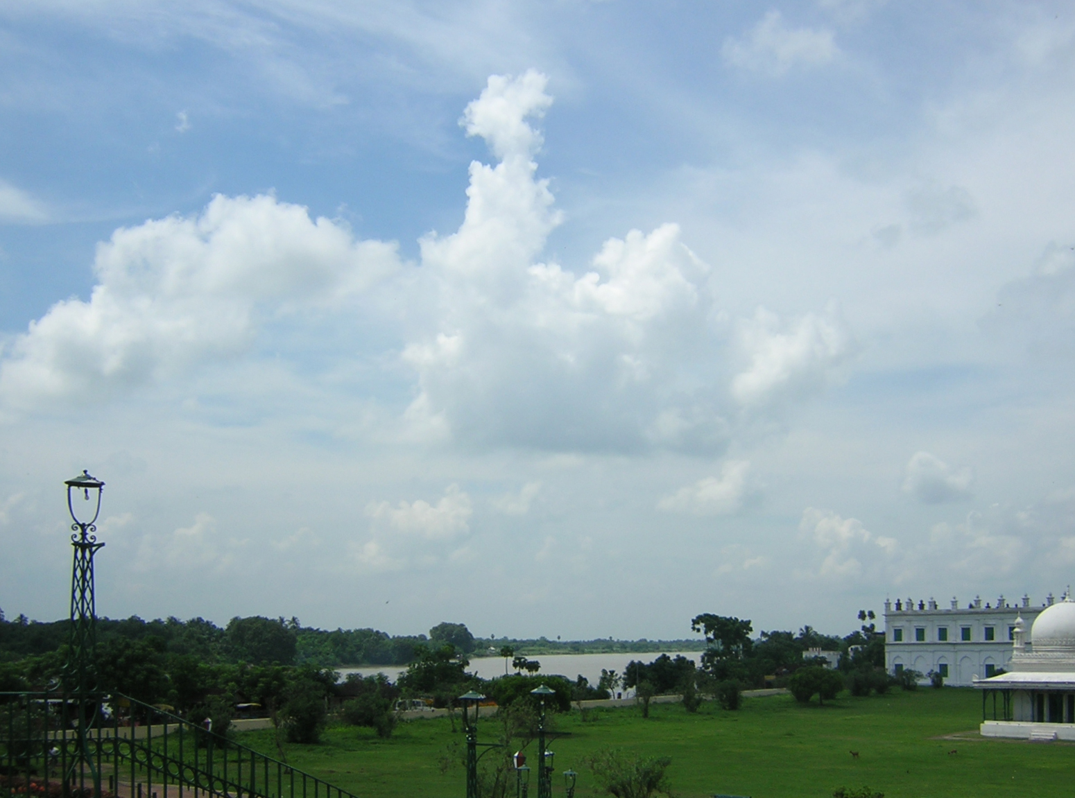 I took the picture, in summer 2005